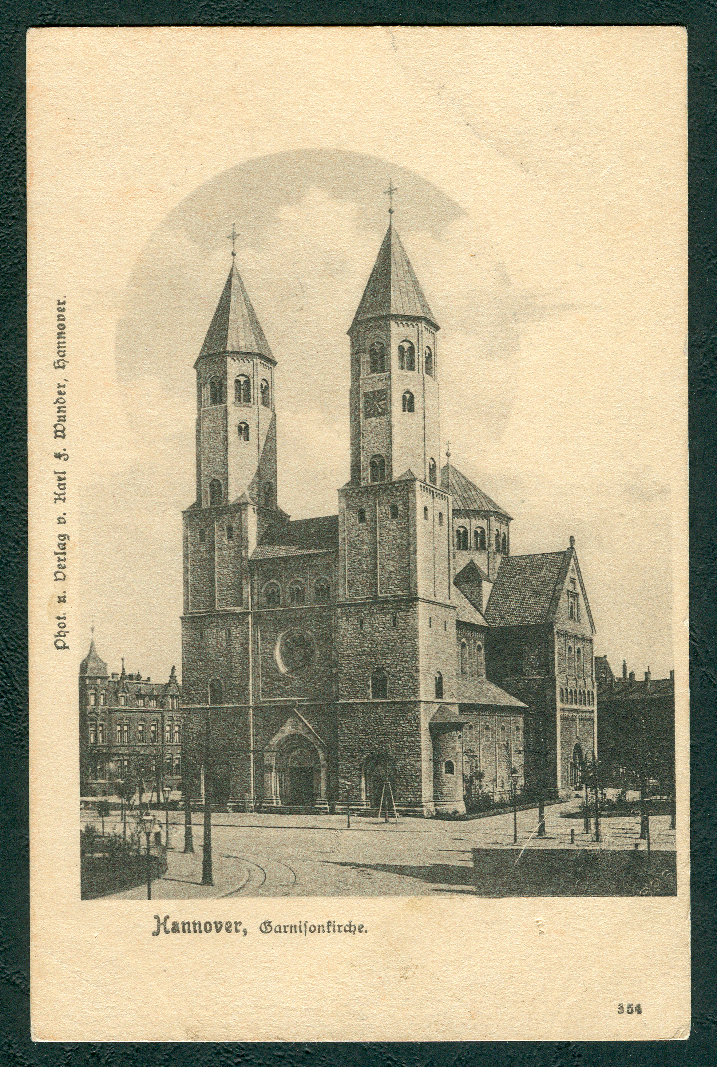 The church Garnisonkirche in Hanover had been used especially for the prussion armee.